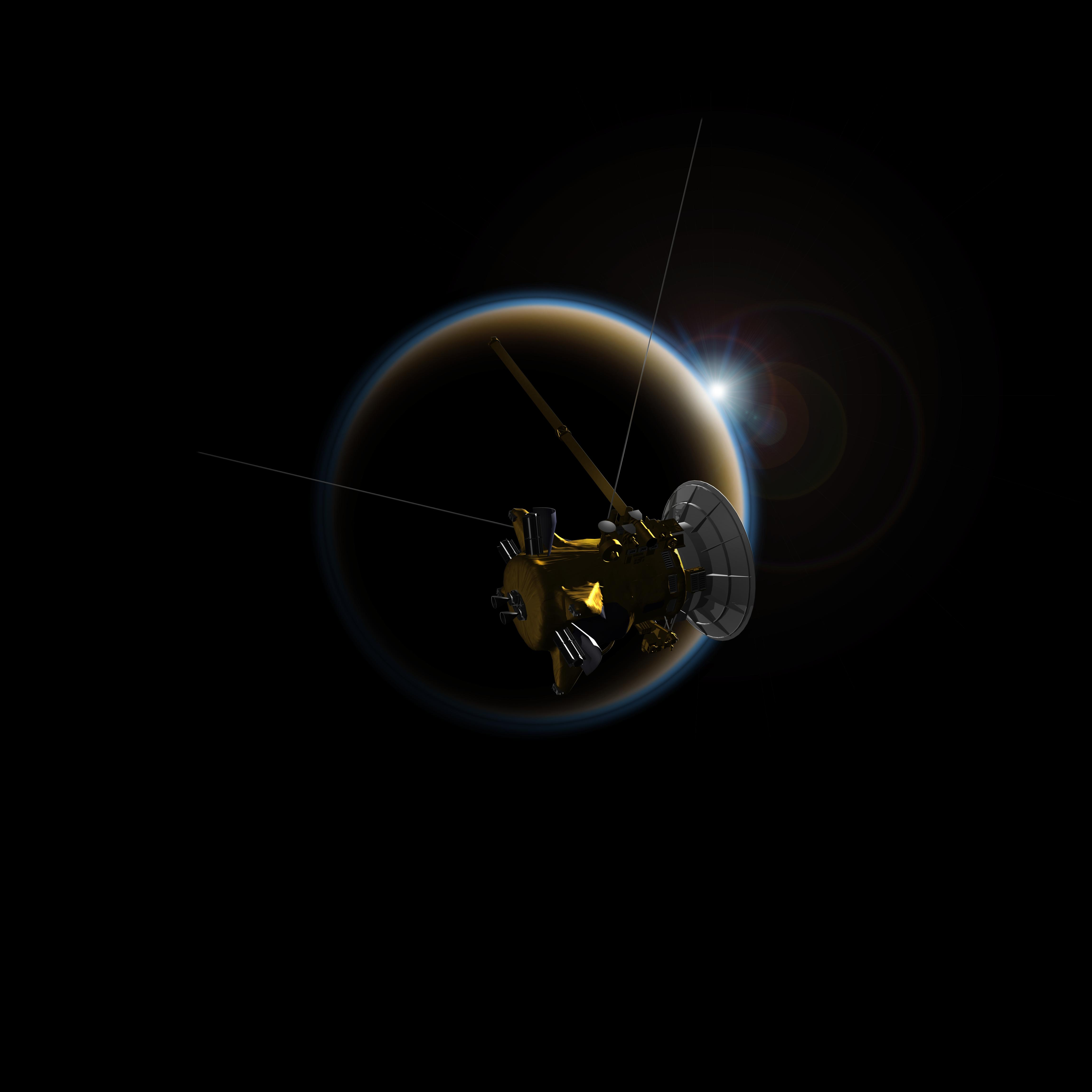 Cassini Observes Sunsets on Titan (Artist's Rendering) Using data collected by Cassini's Visual and Infrared Mapping Spectrometer, or VIMS, while observing Titan's sunsets, researchers created simulated spectra of Titan as if it were a planet transiting across the face of a distant star. The research helps scientists to better understand observations of exoplanets with hazy atmospheres. The Cassini-Huygens mission is a cooperative project of NASA, the European Space Agency and the Italian Space Agency. JPL manages the mission for NASA's Science Mission Directorate, Washington. The California Institute of Technology in Pasadena manages JPL for NASA. The VIMS team is based at the University of Arizona in Tucson. For more information about the Cassini-Huygens mission visit and